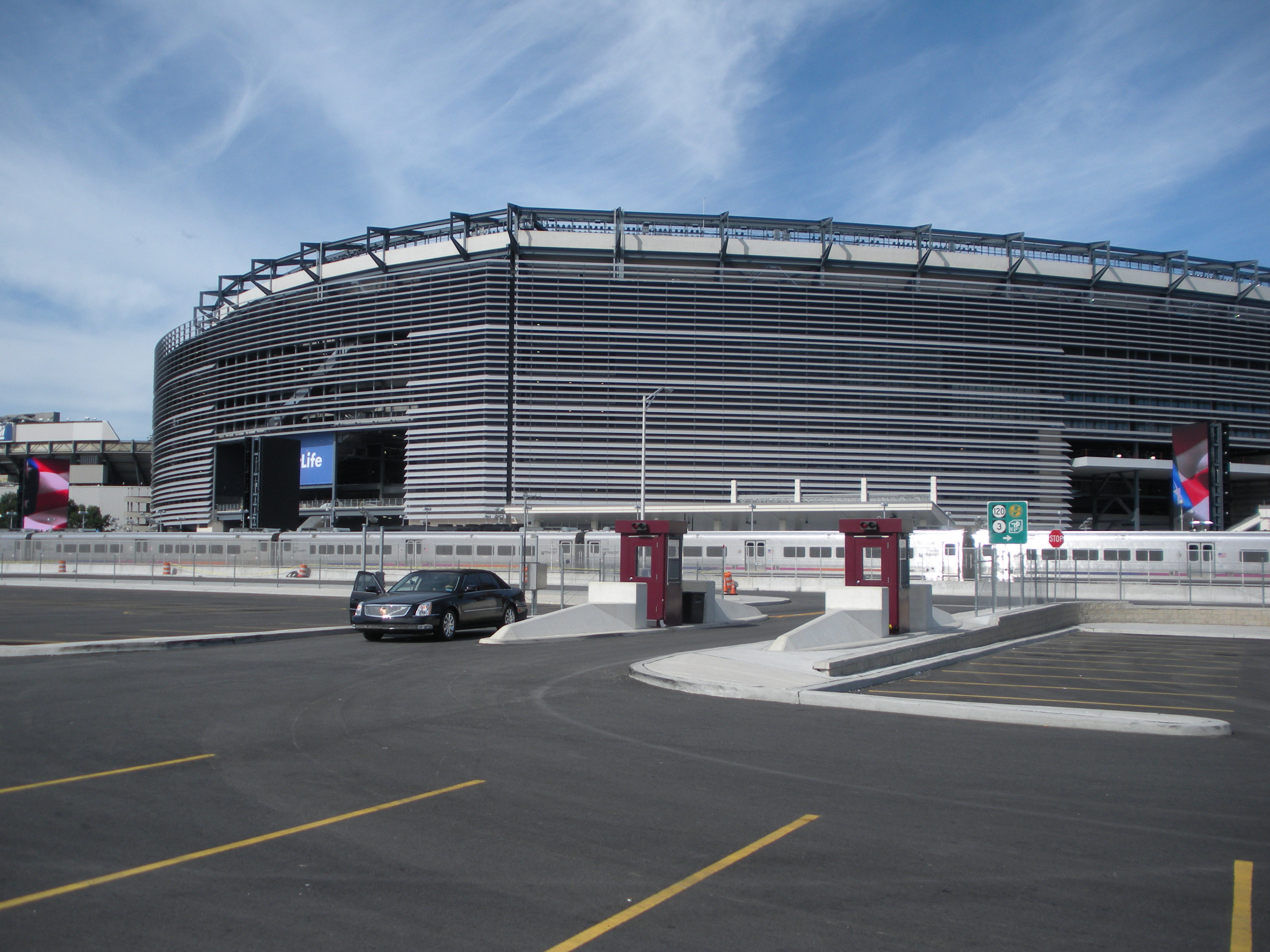 Exterior view of the new MetLife Stadium and the Meadowlands NJ Transit rail station.